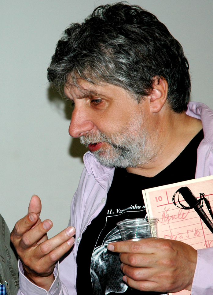 Břetislav Rychlík, Czech film director, actor, script writer